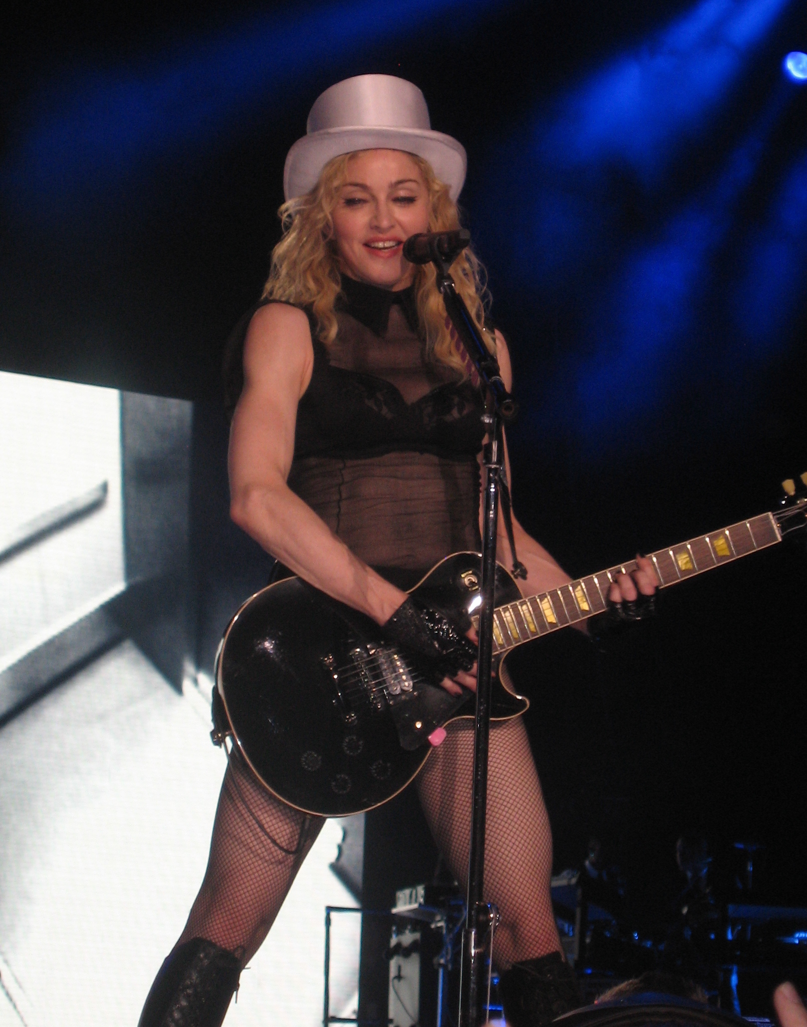 Picture taken at the concert